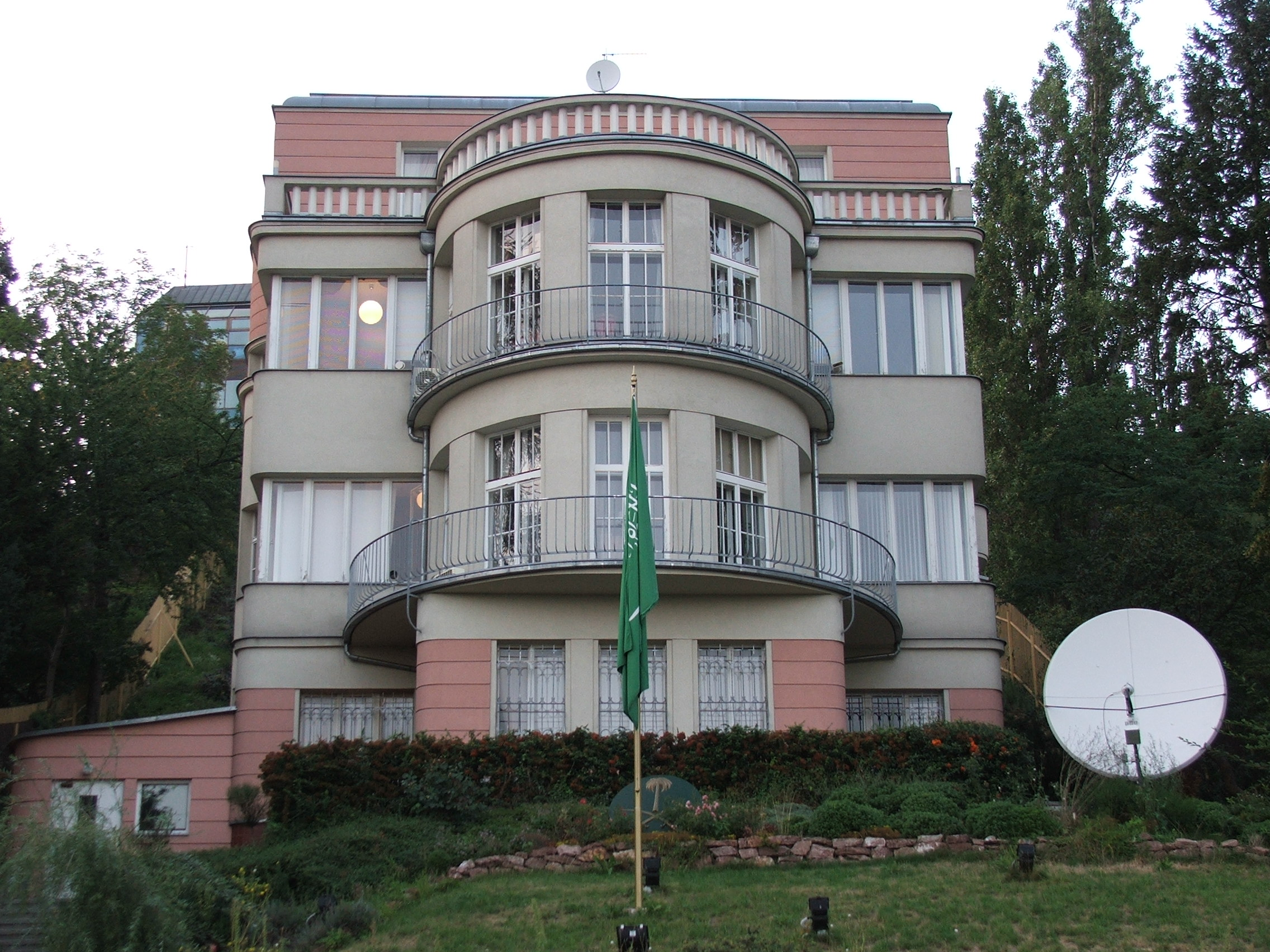 Embassy of Saudi Arabia in Prague 5 - Smíchov, Czechia.